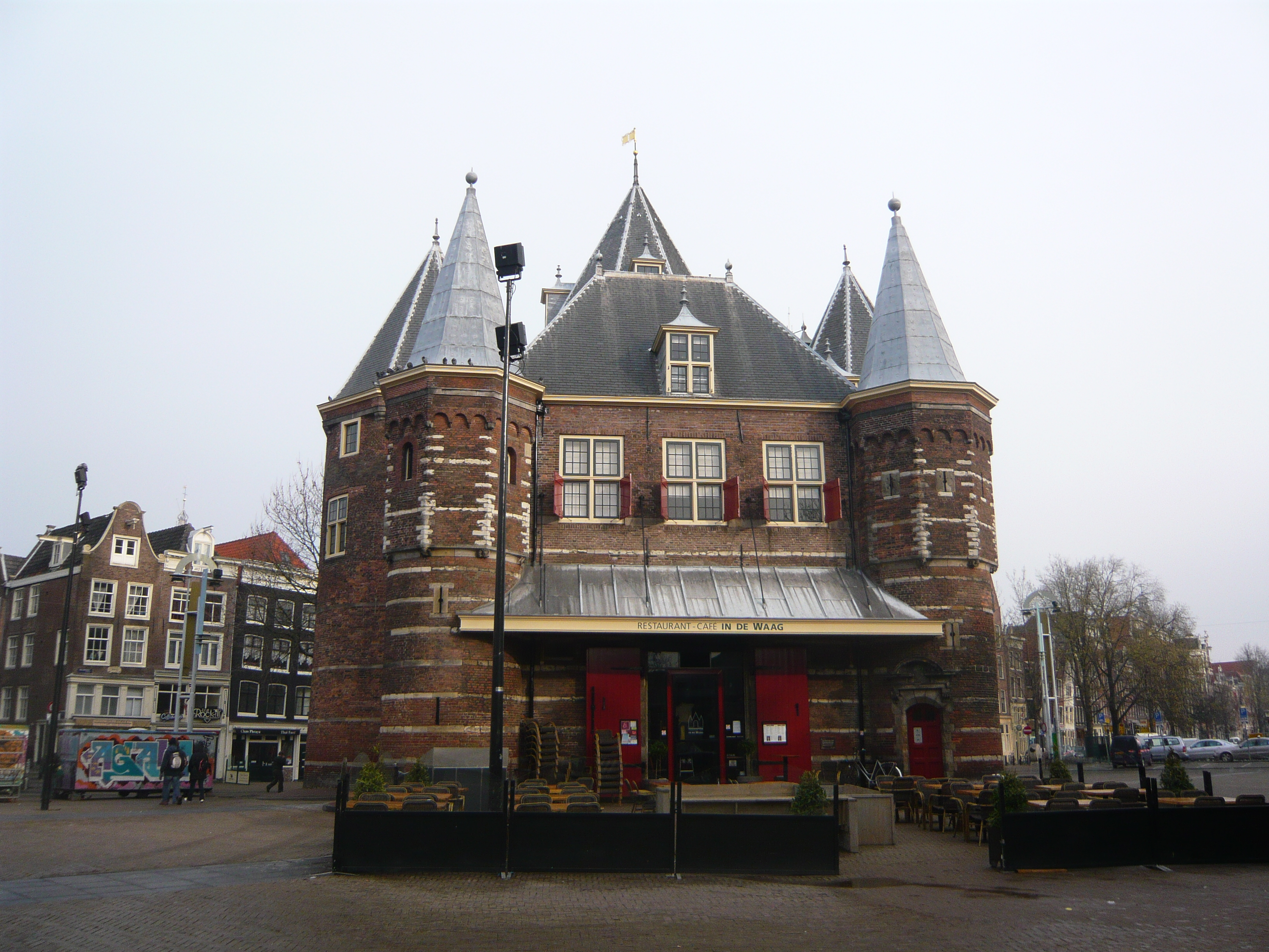 Waag (Amsterdam), Amsterdam, Netherlands